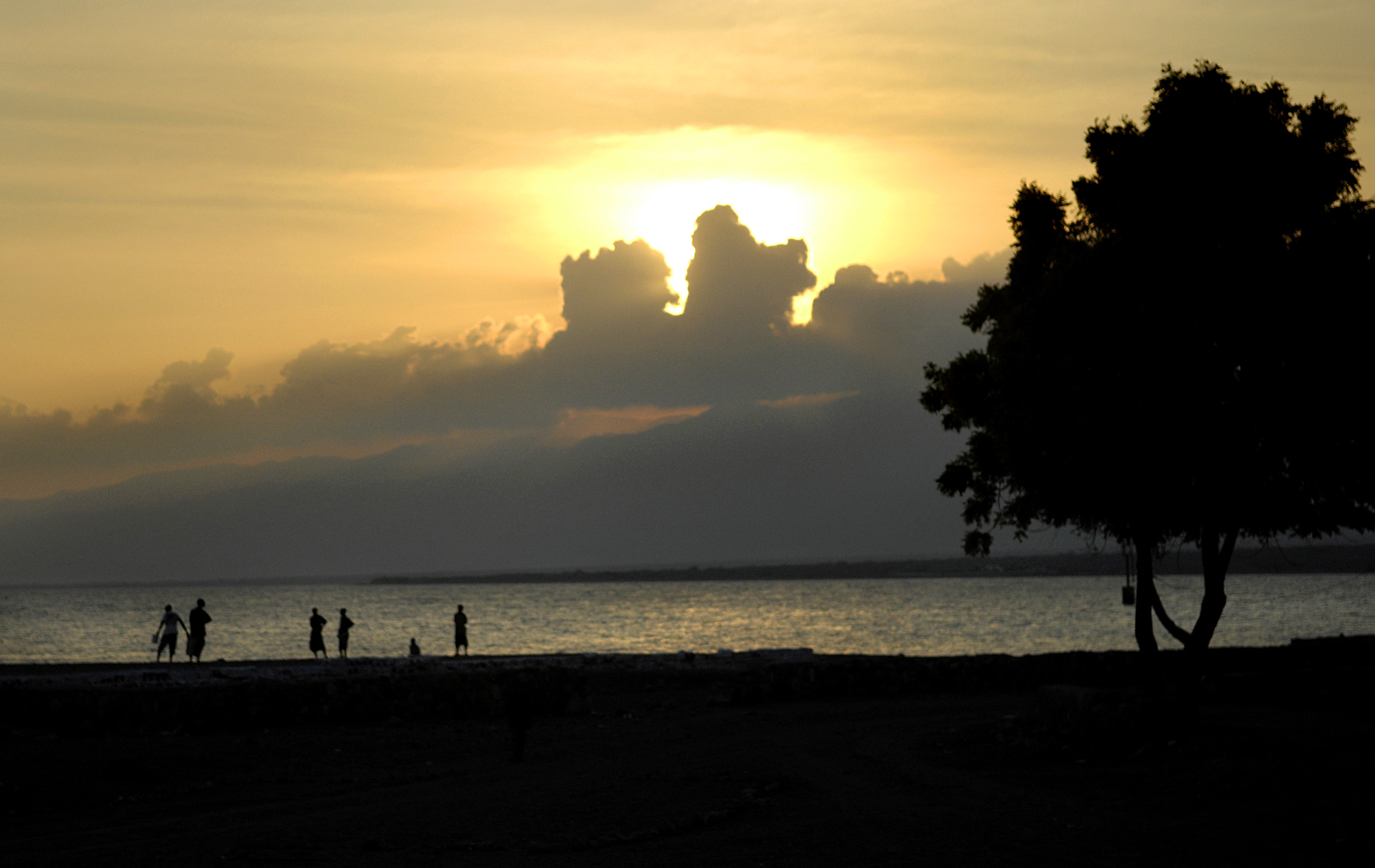 Children stand by the water in Tadjoura, Djibouti as participants of the Joint Civilian Orientation Conference 72 prepare to board MH-53 helicopters, Oct. 21, 2006. The JCOC participants toured a U.S. Navy Seabee constructions site at a local secondary school, toured a local hospital, and handed out school supplies and soccer balls to the children of the community.